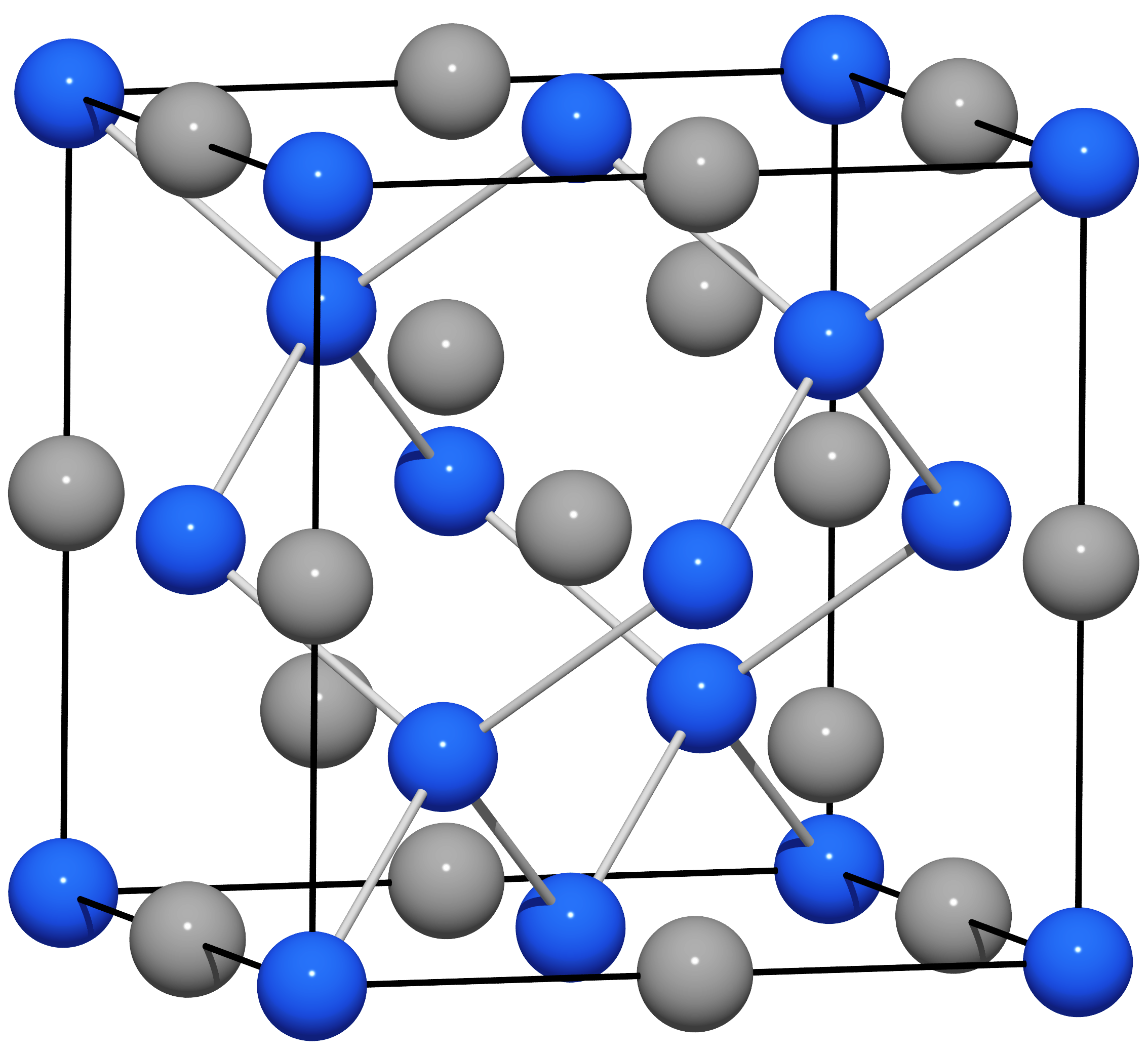 Structure of NaTl